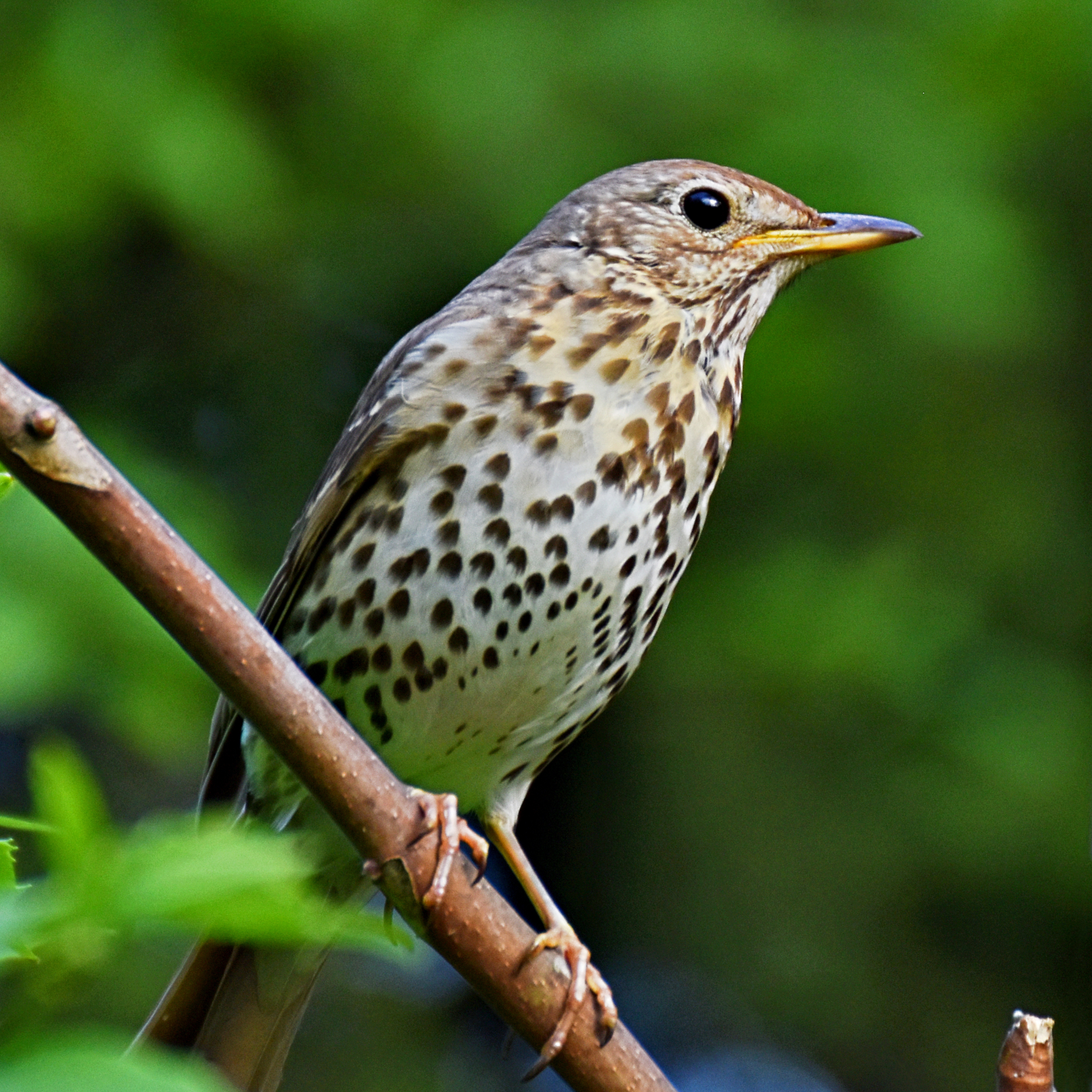 A posing song thrush resting on a tree in the the UNESCO World Heritage site -Garden Kingdom of Dessau-Wörlitz- (Biosphärenreservat Flusslandschaft Elbe; LSG Mittlere Elbe Cropped